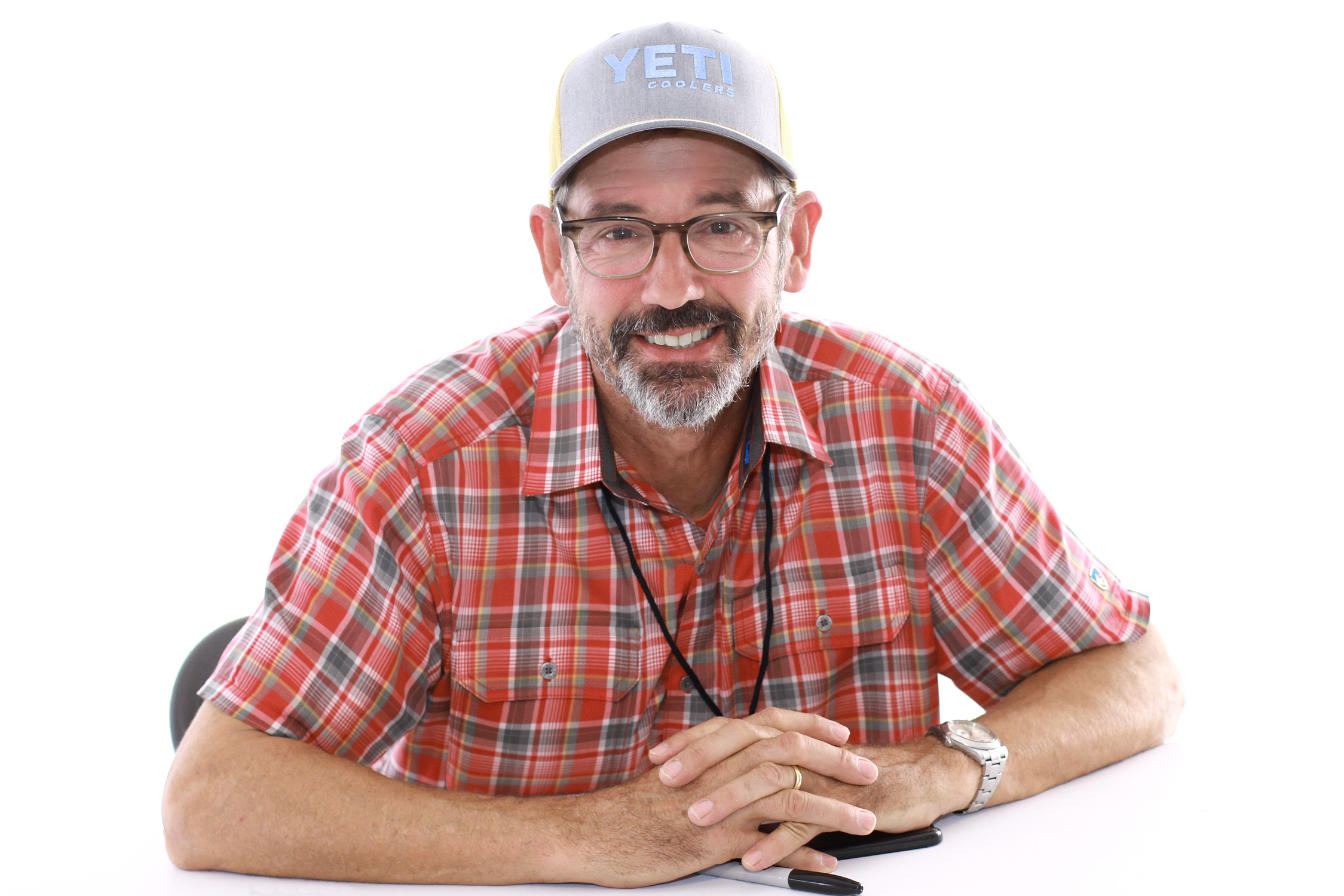 Chef Tuffy Stone at the 2018 Texas Book Festival in Austin, Texas, United States.